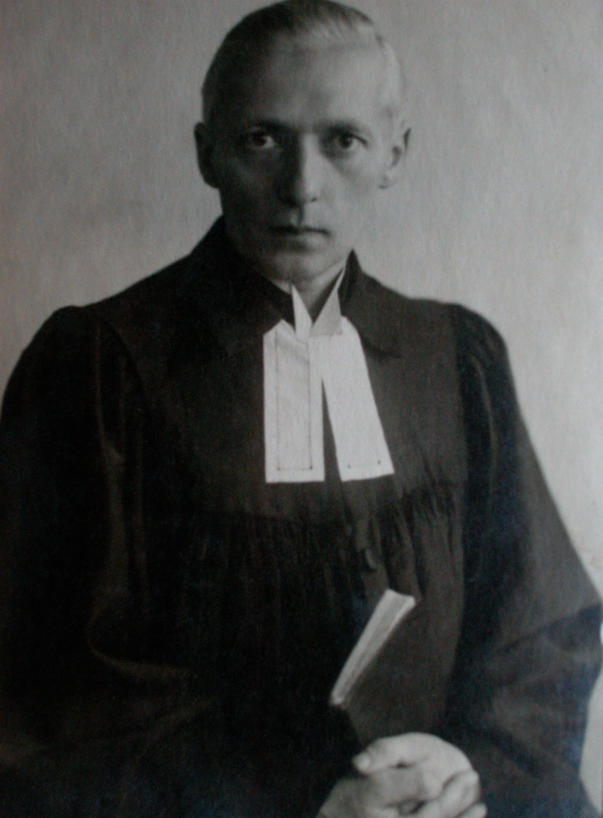 Superintendent Herbert Achterberg